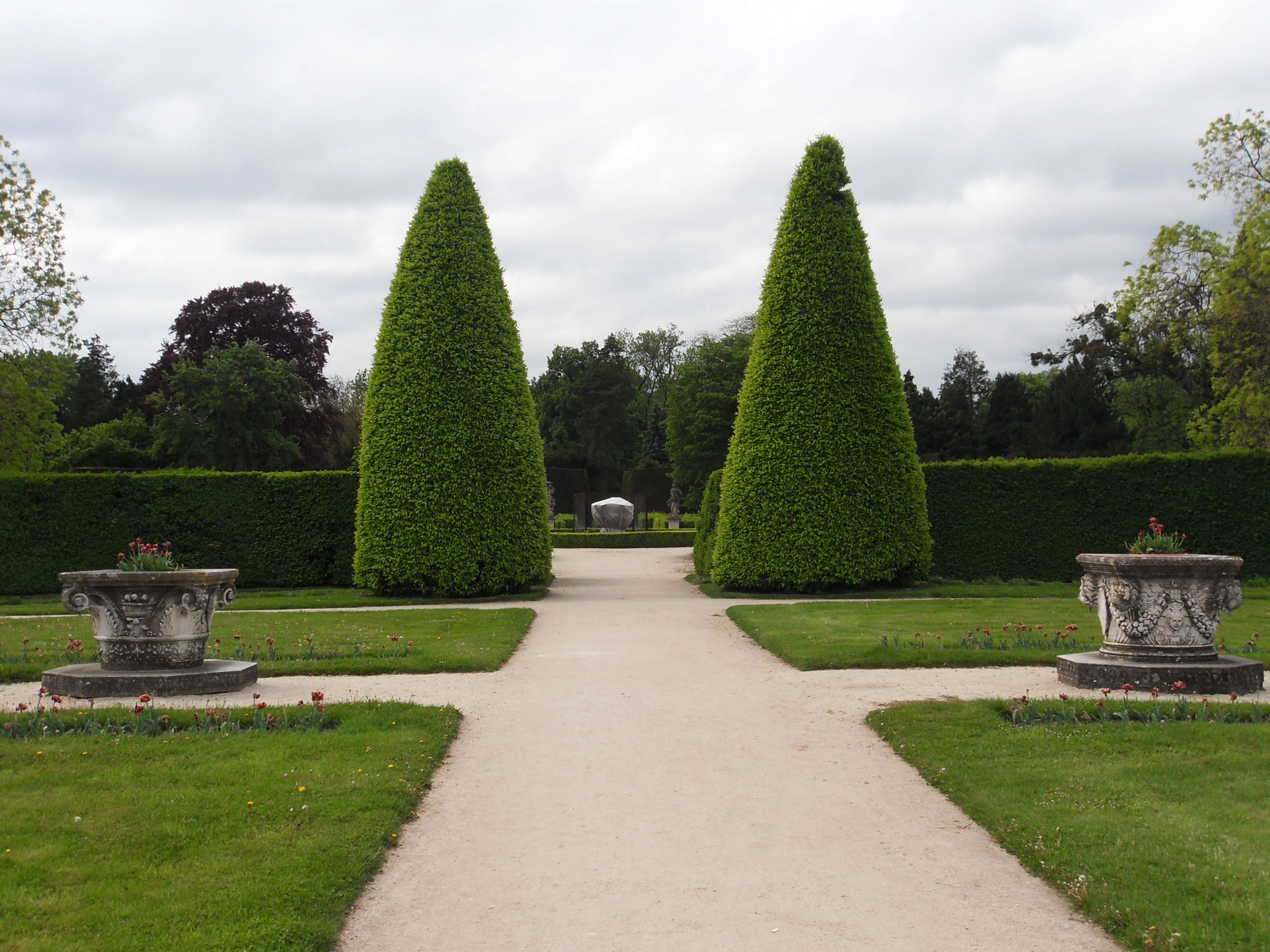 Garden of castle, Lednice, Břeclav district, Czech Republic